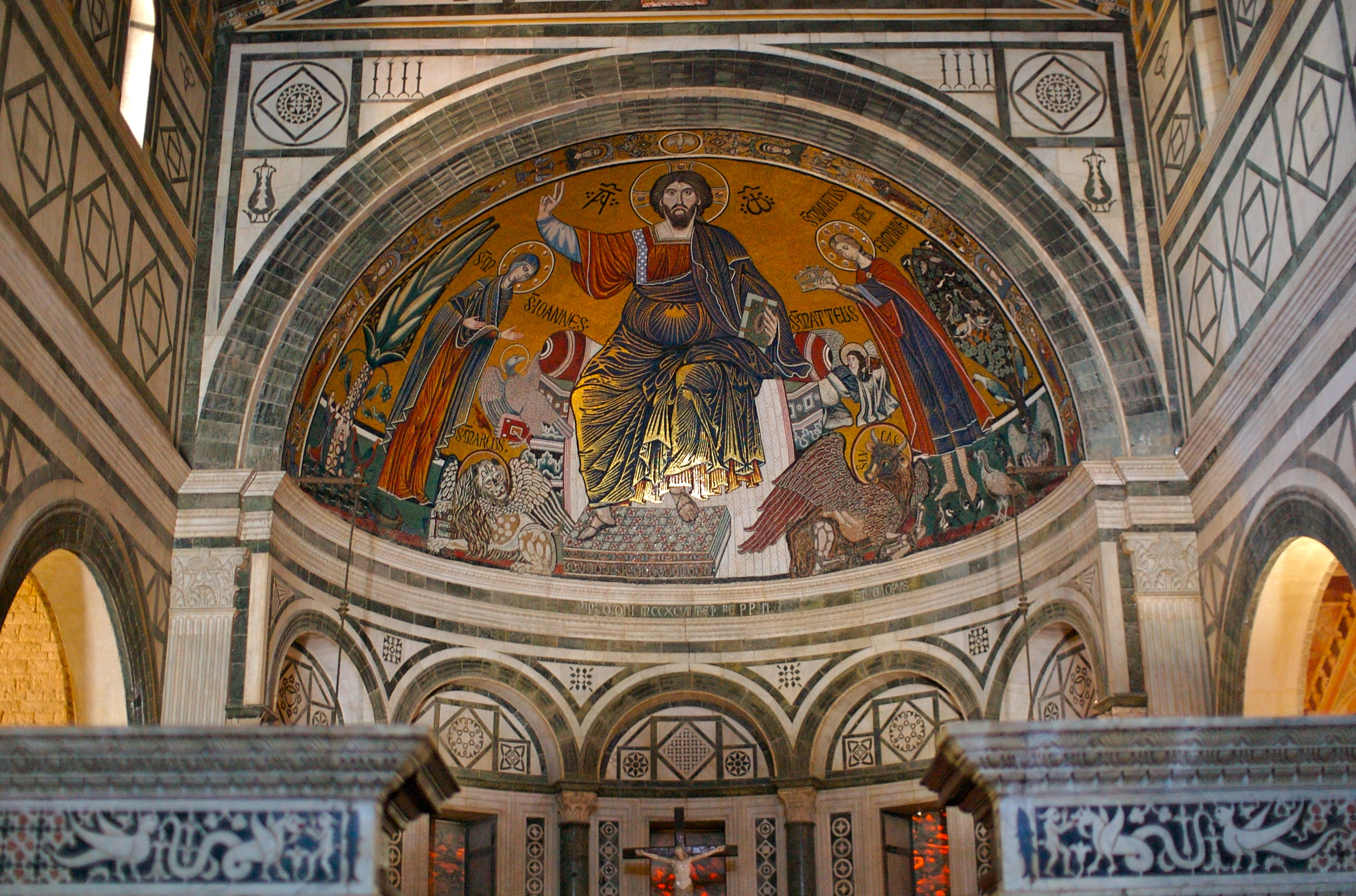 Church San Miniato al Monte, Florence, Italy